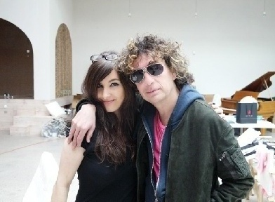 Severus Tenenbaum with Magnus Uggla May 2008